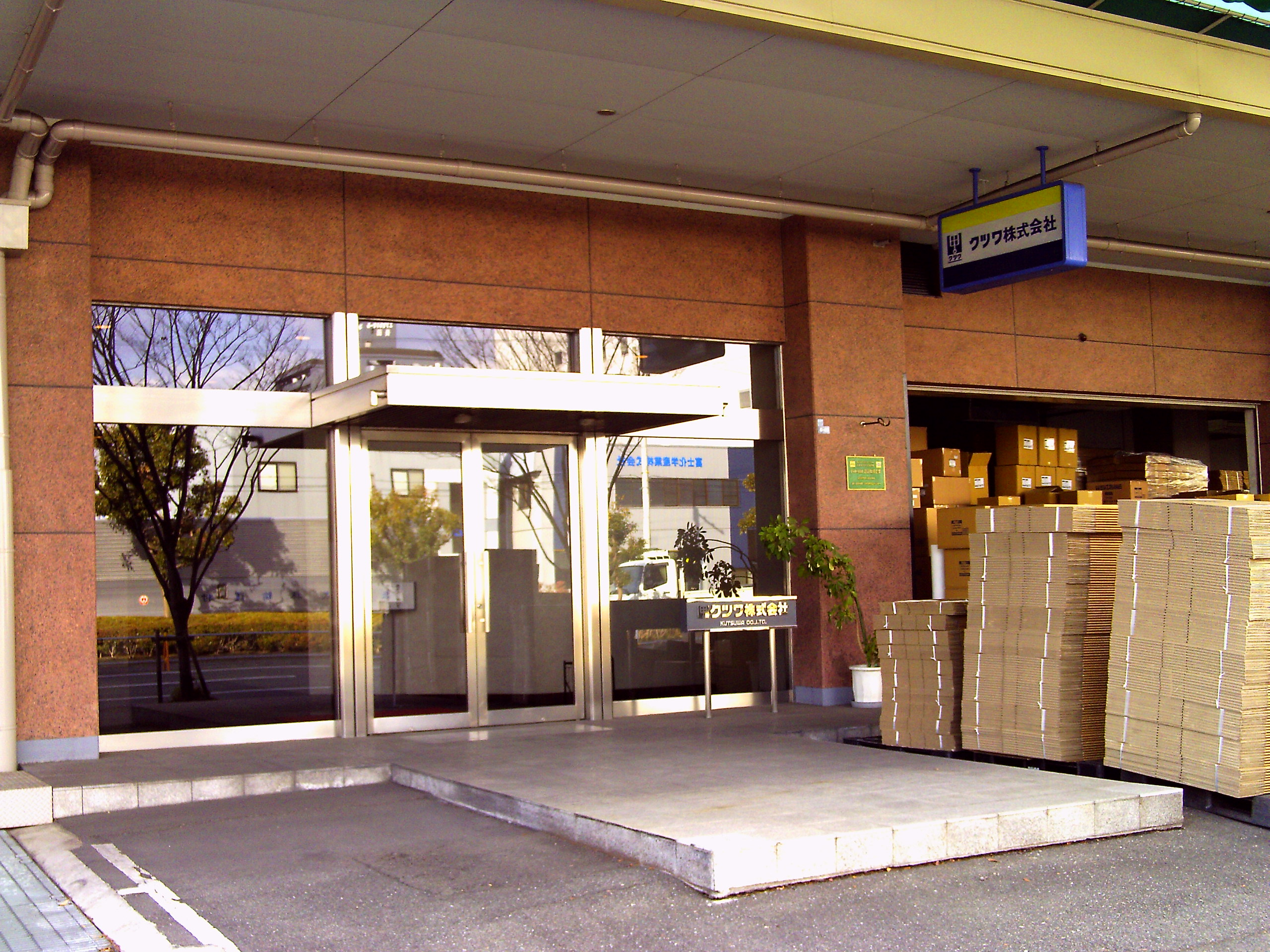 Kutsuwa Co,Ltd at Higashi-Osaka